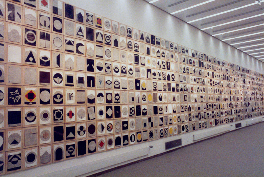 Artist :Gianfredo Camesi Title : «Cosmogonie 0 – 1 – 0 , Théatre des Signes», exhibition at the Musée Rath, Geneva, Switzerland. 1985.